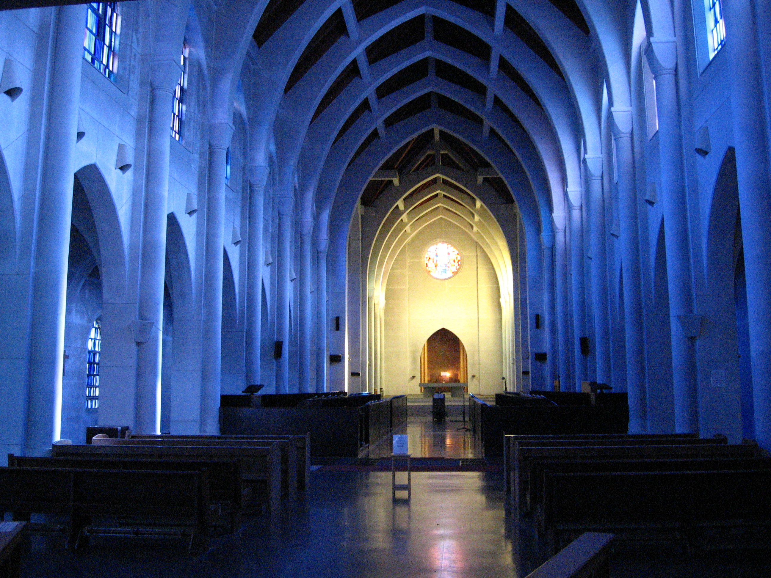 The interior of the church at the Monastery of the Holy Spirit in Conyers.